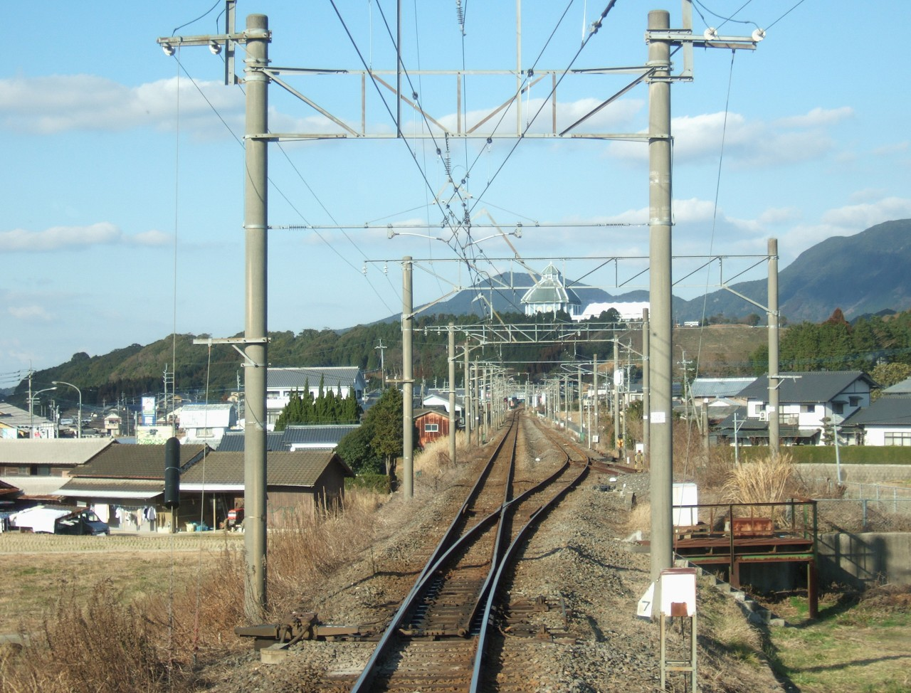 Nishi-Arita Signal Box (JR Kyushu Sasebo Line)